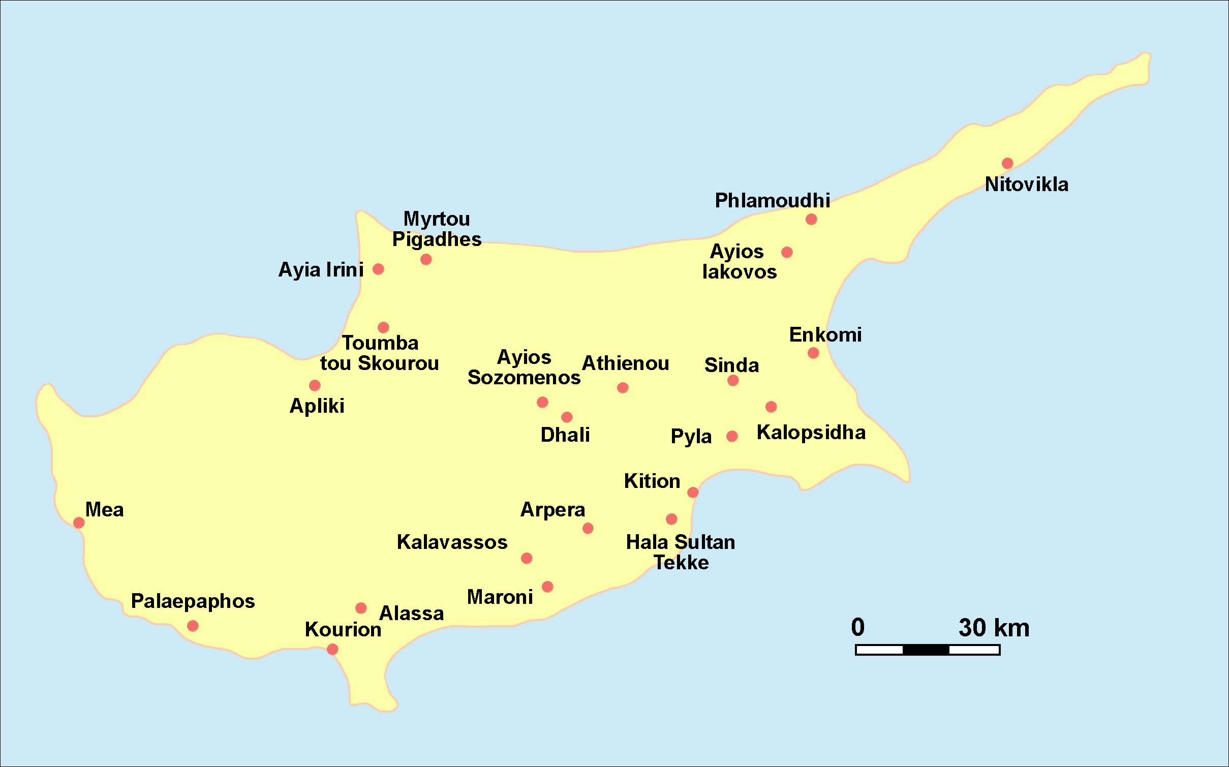 Cyprus in the Late Bronze Age